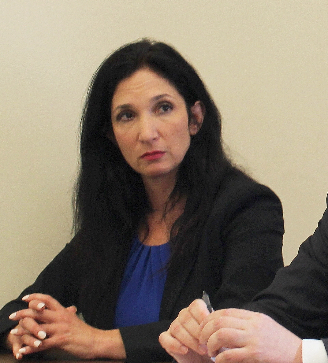 Nomi Prins in June 2017 at a Congressional briefing